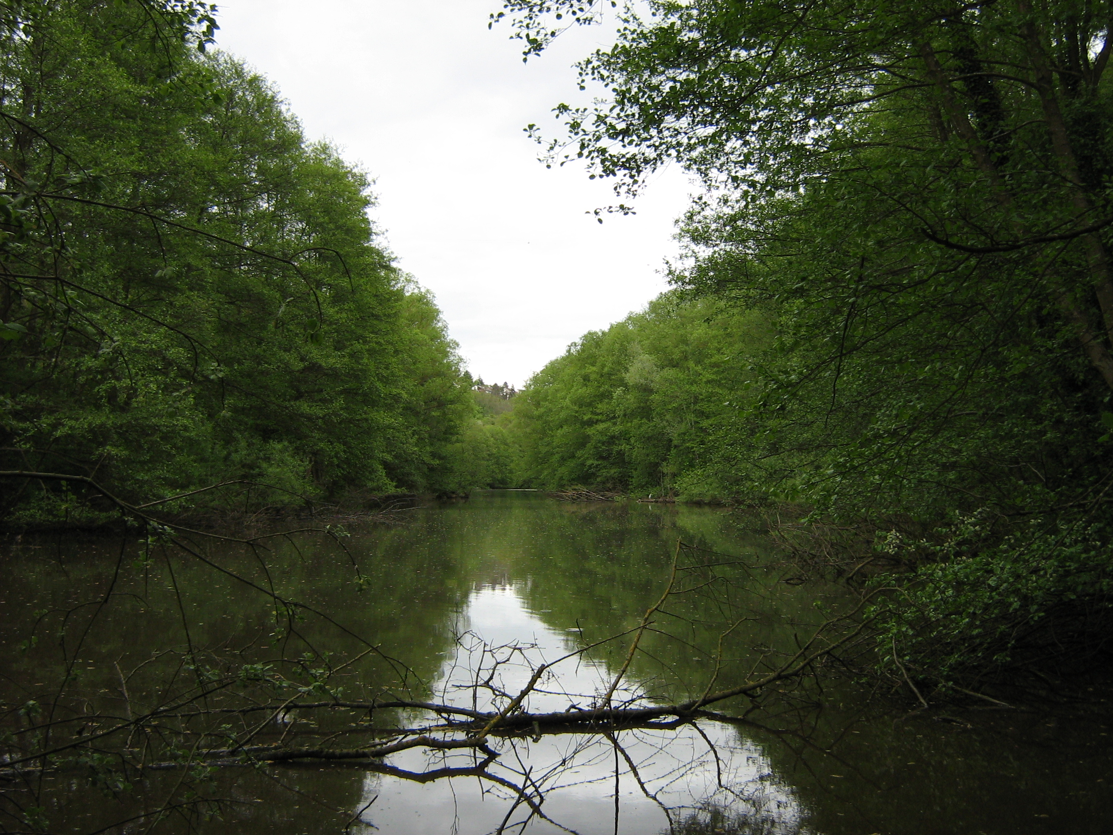 The Eckbachweiher with some houses of Neuleiningen in the background.